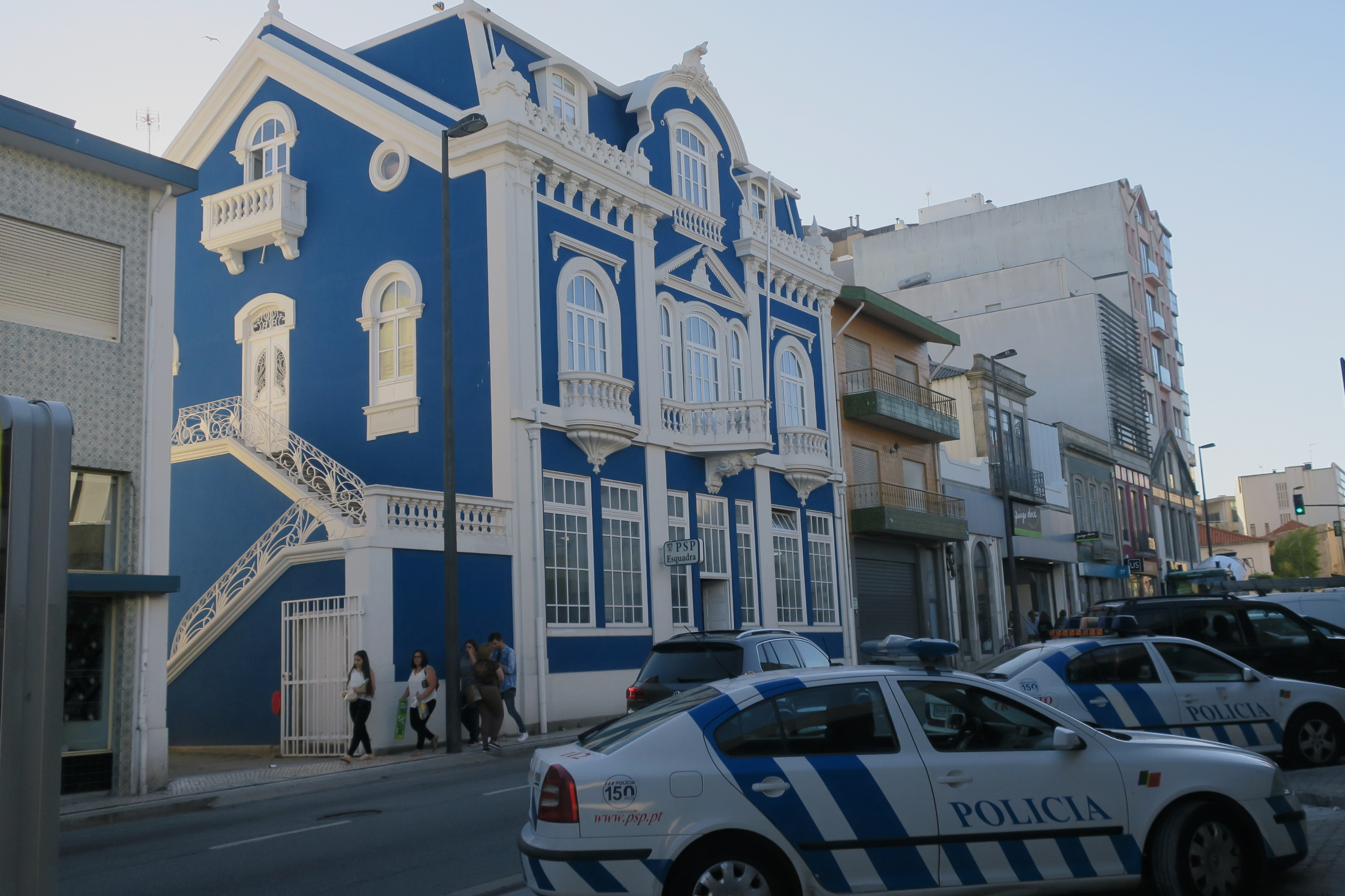 PSP Police Station (Esquadra), Póvoa de Varzim, Portugal